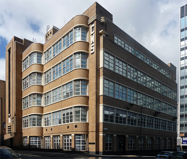 Redfern Building in Manchester - a distinctive building for the Co-operative Wholesale Society by W.A. Johnson and J.W. Cropper, 1936. Further down the road is its almost-twin sister. Pevsner says the inspiration is Dutch brick modernism. Of pale-brown brick, with horizontal bands of windows, and a clear affinity with Art Deco in its curves. Service tower on the left. The lettering at the angle is also noteworthy. Grade II listed.